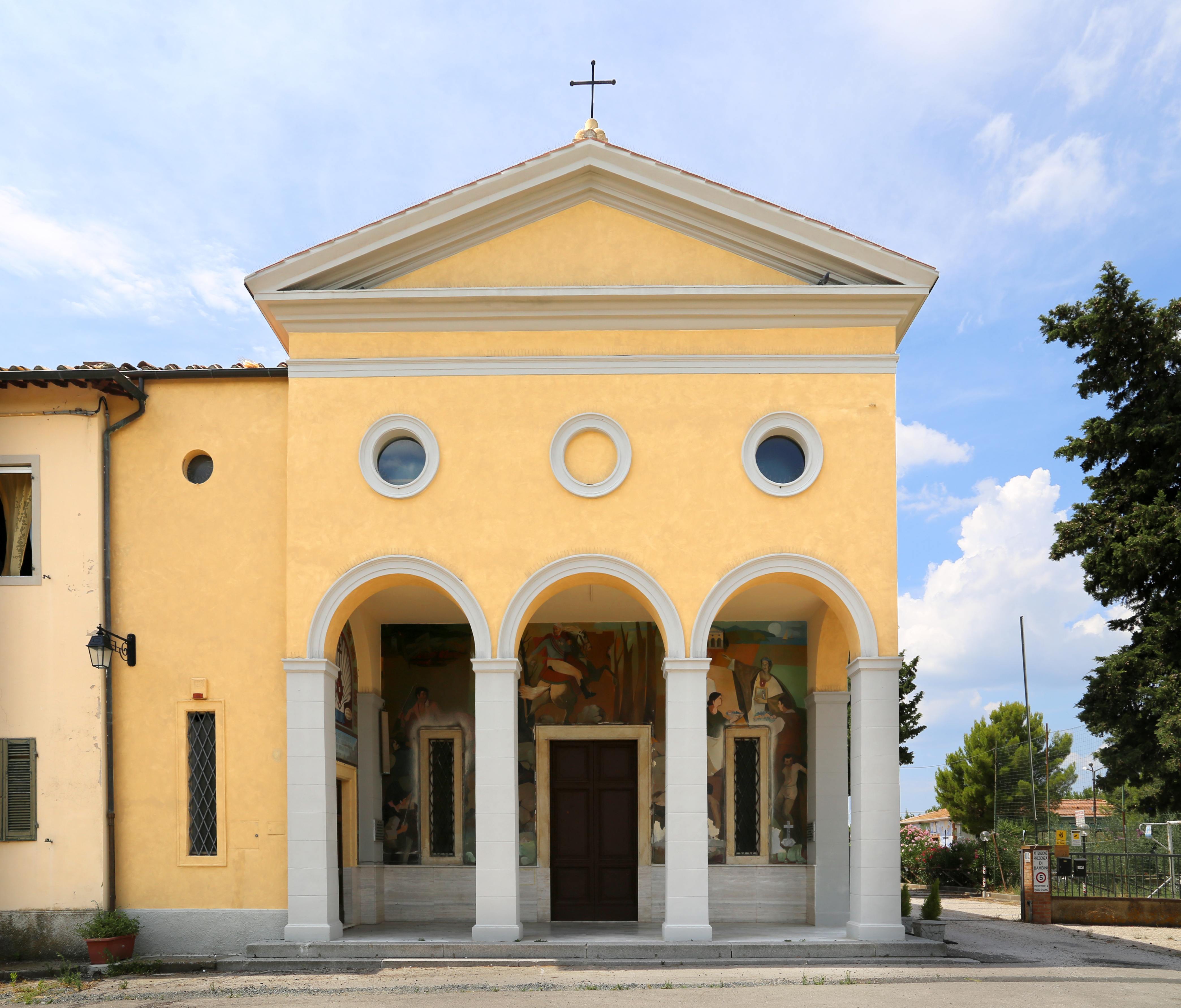 Sant'Antonio a Collemezzano (Cecina)